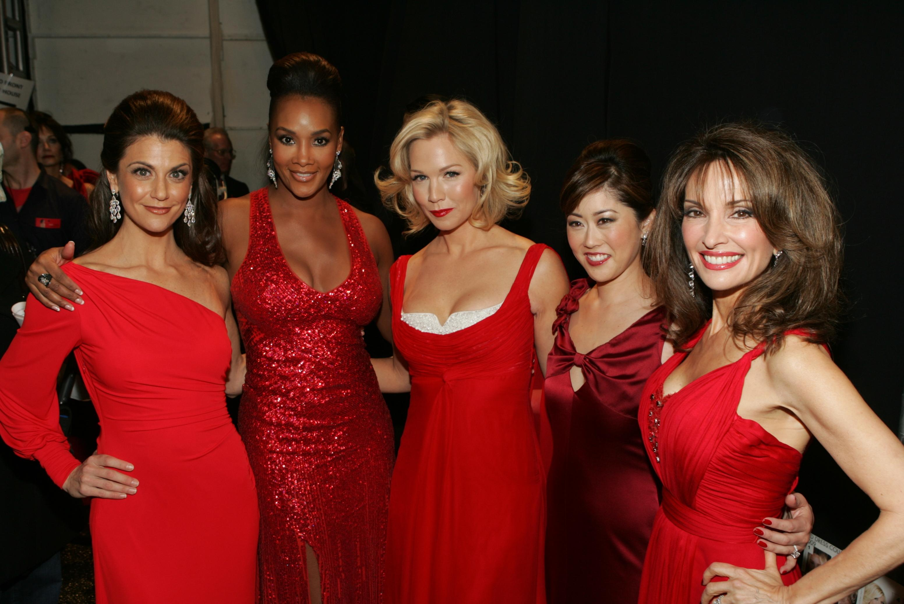 Samantha Harris, Vivica A. Fox, Jennie Garth, Kristi Yamaguchi and Susan Lucci (left to right) back stage at the 2009 Heart Truth fashion show